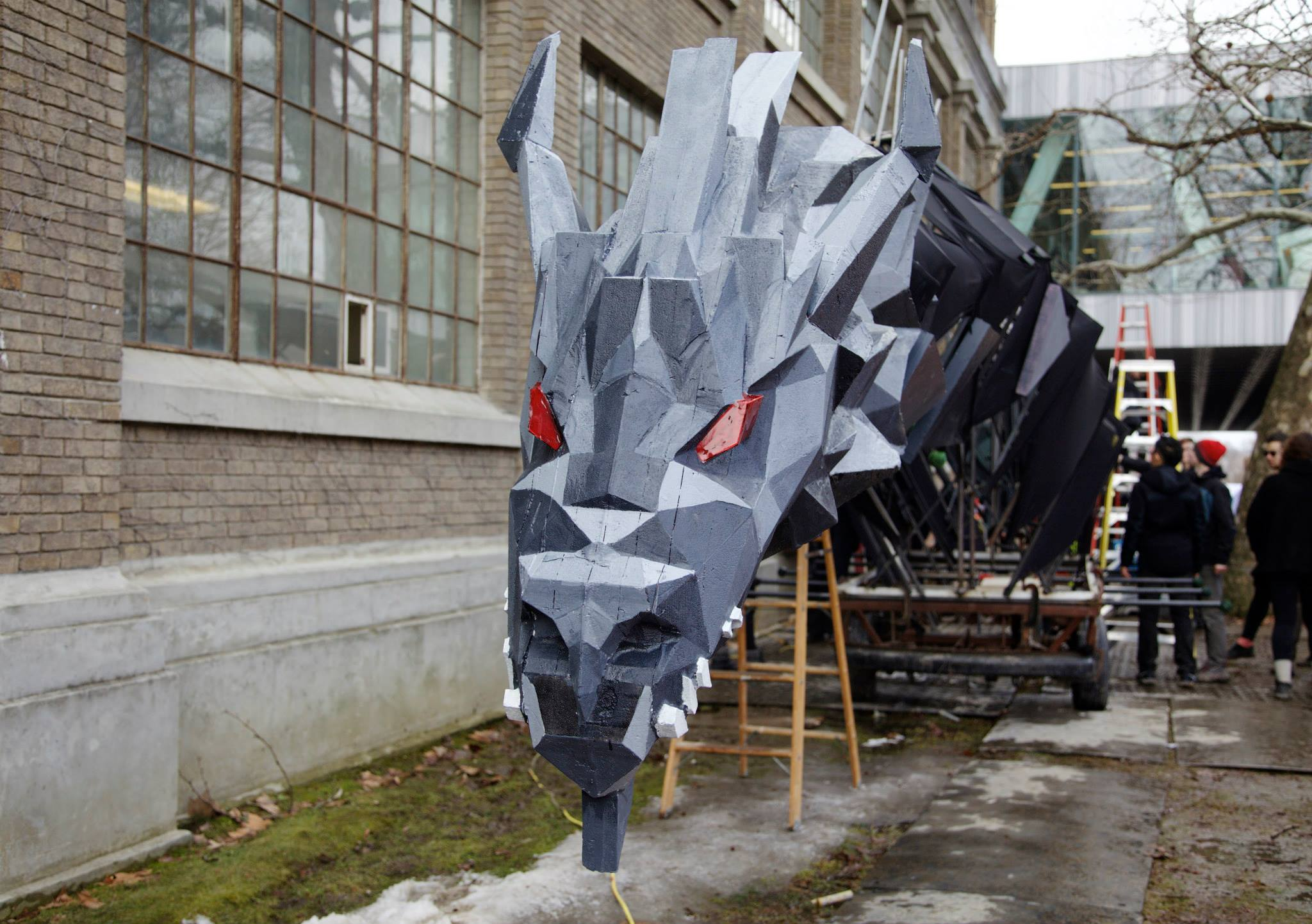 2015 Dragon built by class of 2019